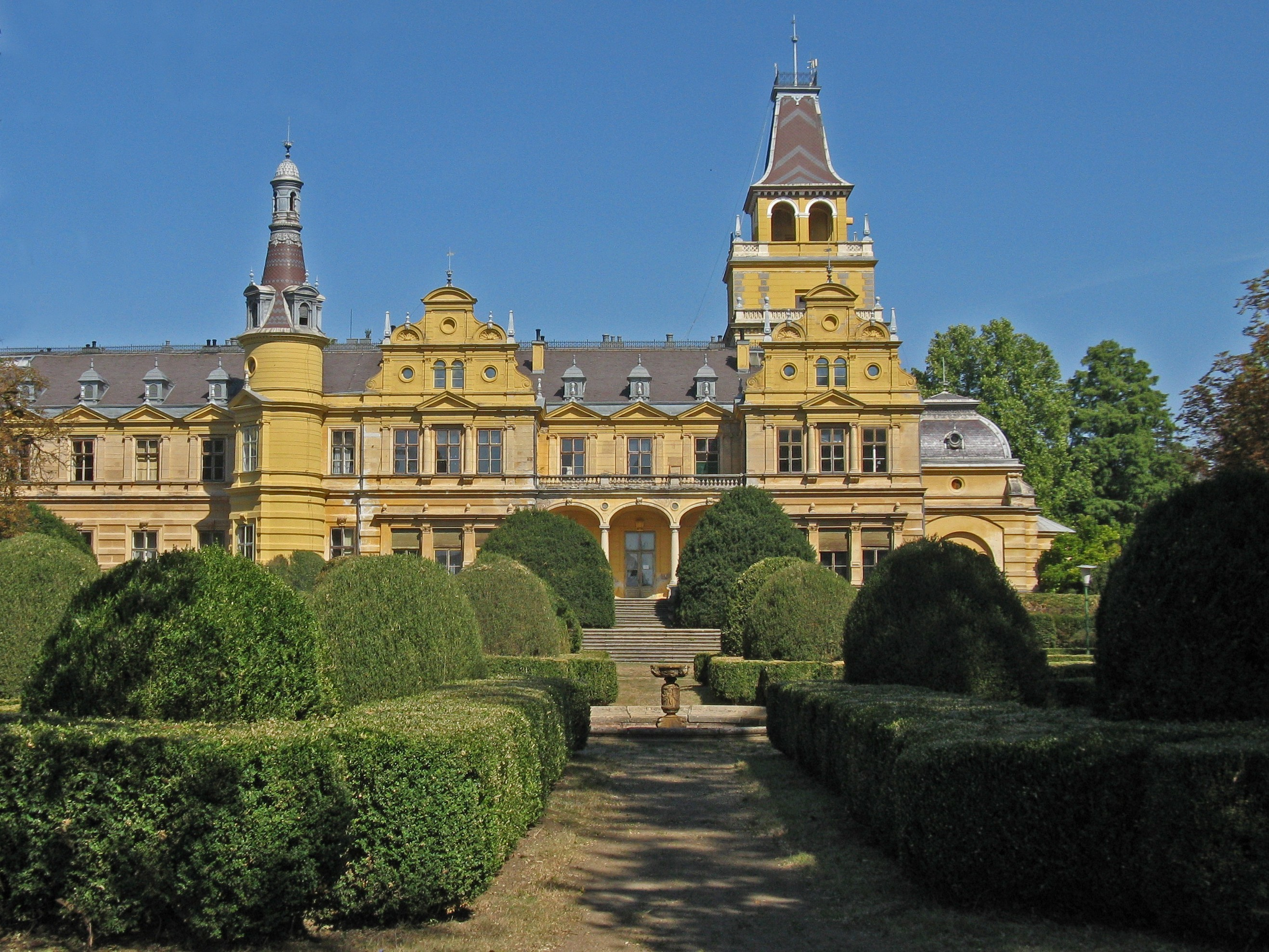 XIX.-th century hungarian castle